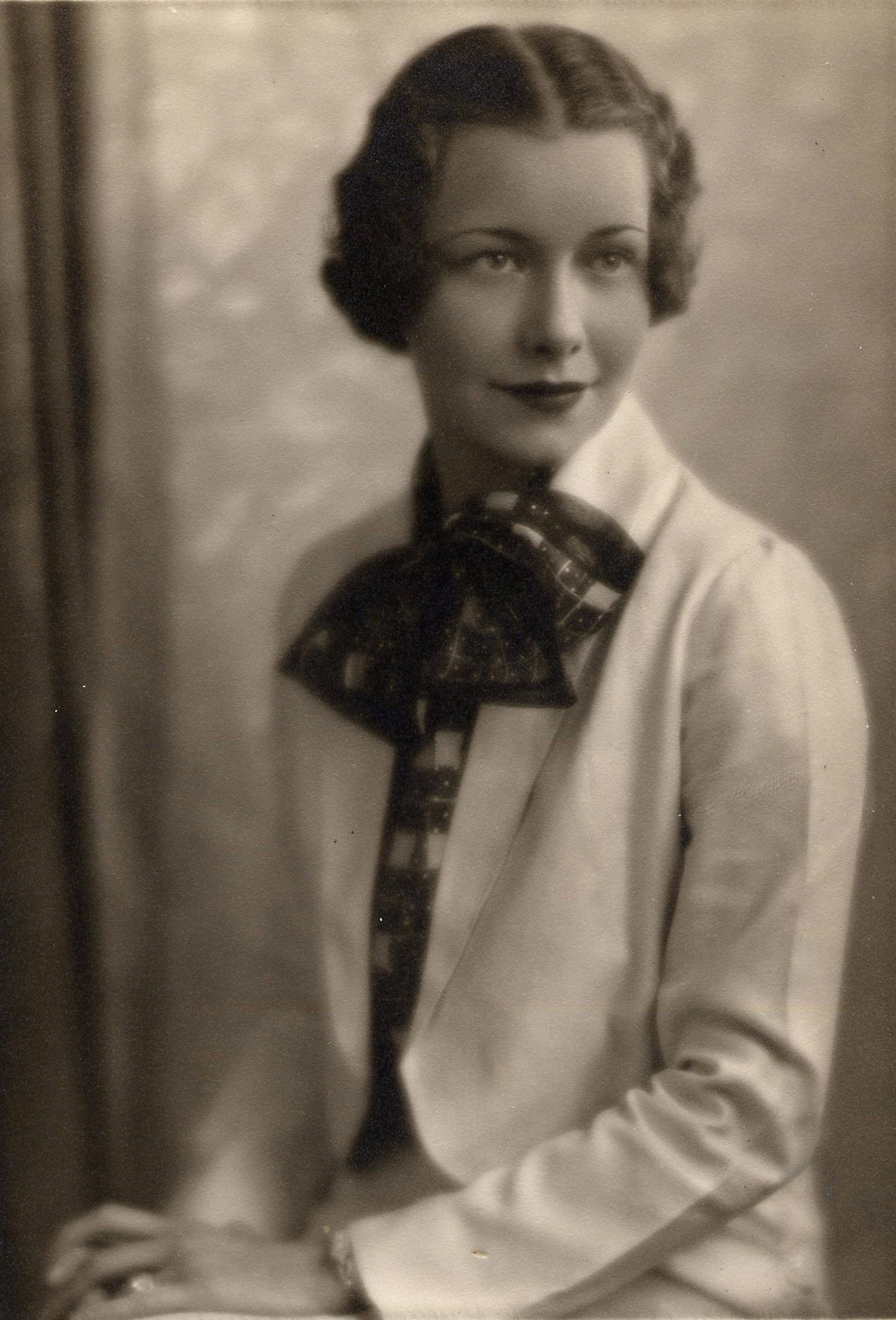 Grandma was stylish and up-to-the-minute back in 1935. Inherited ancestor photo.